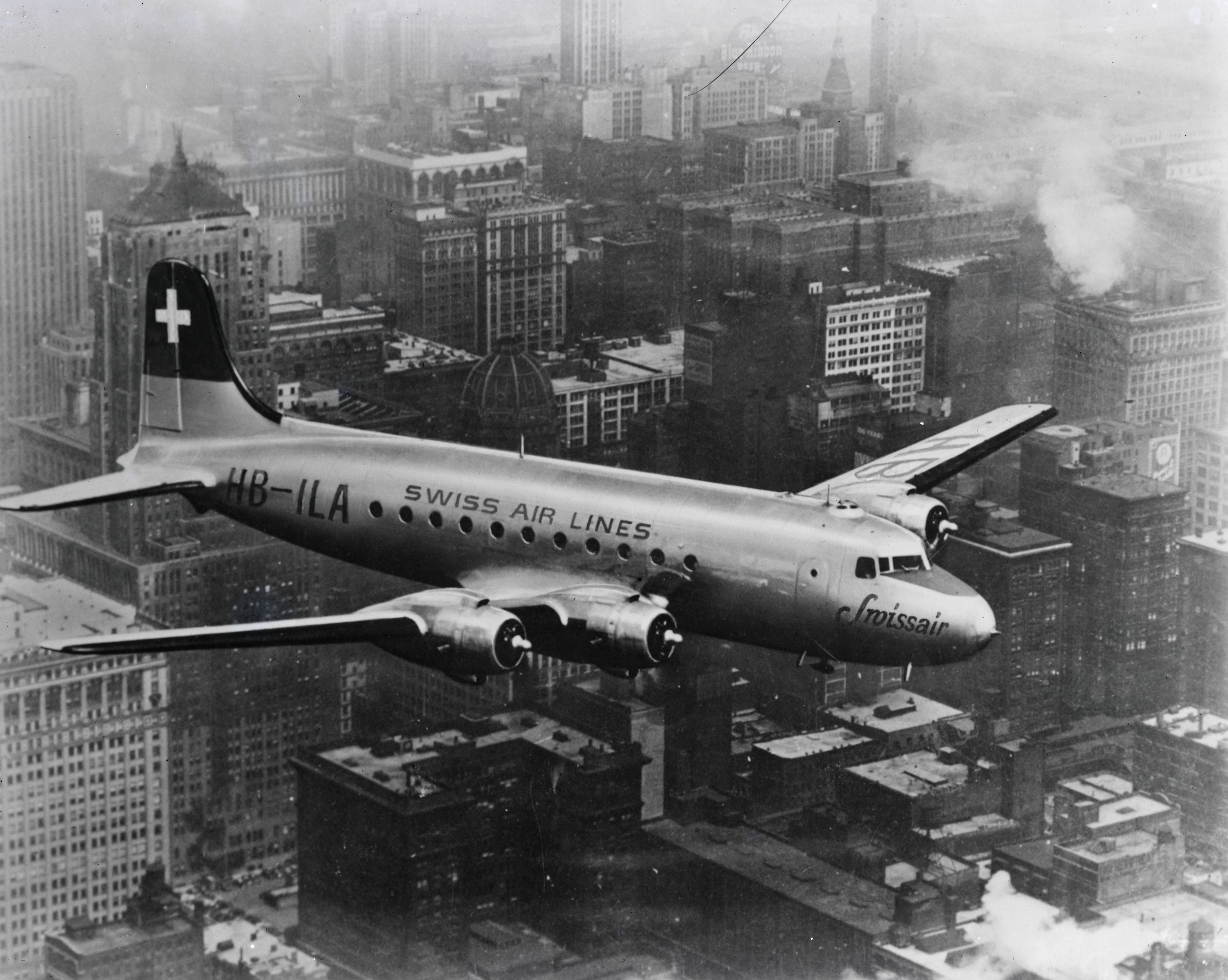 Fotomontage und Retouche zu Werbezwecken